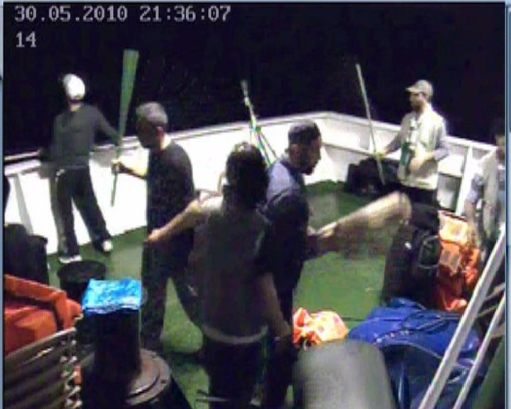 Footage taken from the Mavi Marmara security cameras shows the activists preparing to attack IDF soldiers. To view the entire footage: wp.me/ppbEs-s5